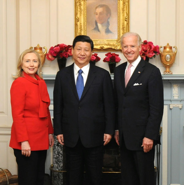 Feb 14, 2012.Secretary Clinton and Vice President Biden hosted a lunch in honor of Vice President of the People's Republic of China, His Excellency Xi Jinping, at the Department of State.